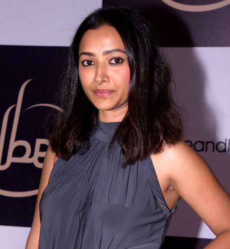 Prasad at the launch of ‘KUBE’ in Mumbai